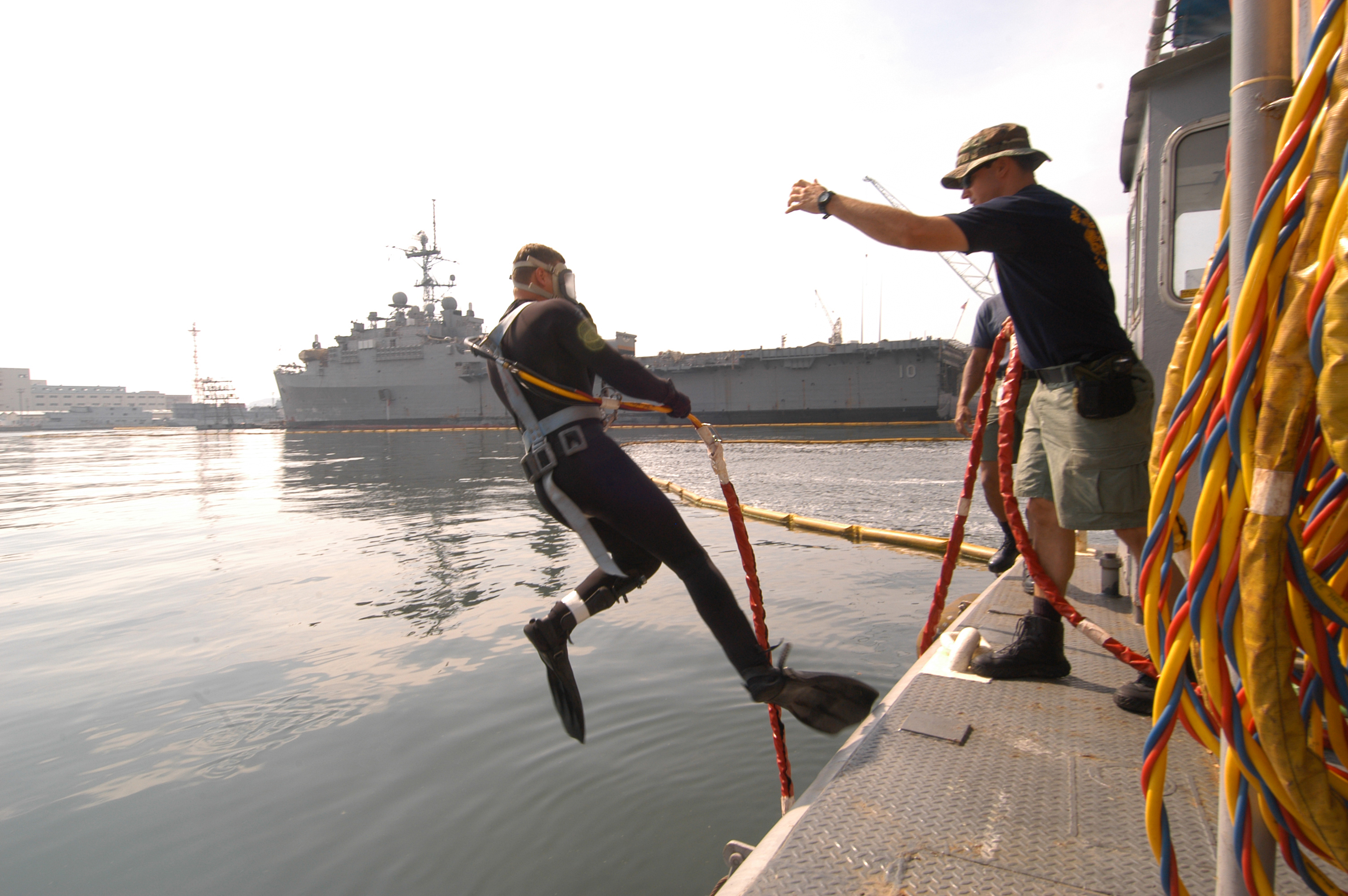 Sasebo, Japan (June 10, 2005) - Aviation Boatswain’s Mate 3rd Class Greg Early assists Operations Specialist 3rd Class Shane Olson, a diver assigned to Ships Repair Facility/ Japan Regional Maintenance Center, Detachment Sasebo. The divers are installing a coffer dam on the hull of the amphibious dock landing ship USS Harpers Ferry (LSD 49). U.S. Navy photo by Photographer’s Mate 3rd Class Yesenia Rosas (RELEASED)